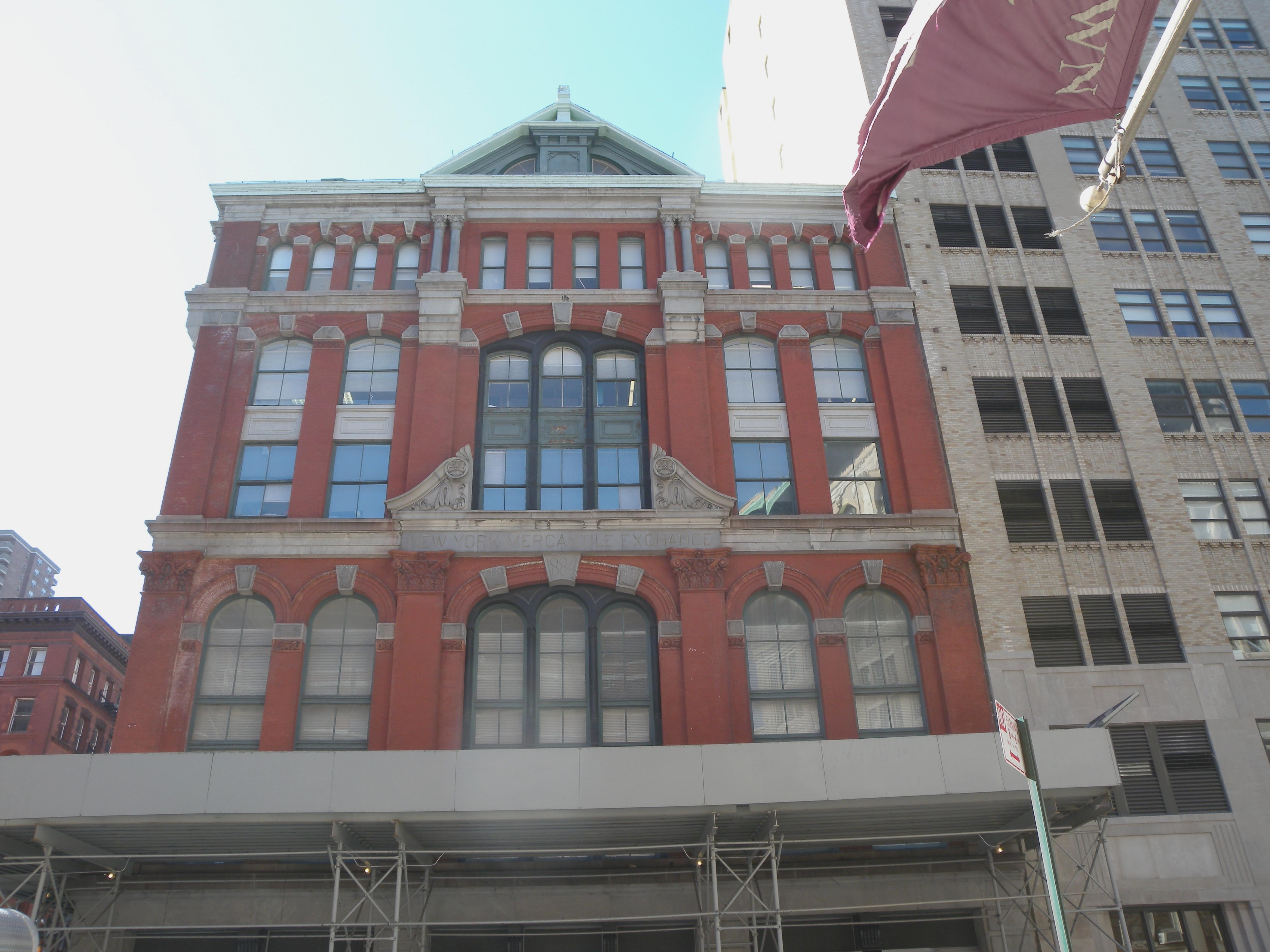 Looking west across Hudson Street at former New York Mercantile Exchange building on a sunny winter early afternoon. See also Image:NYMEX Harrison jeh.JPG. Guide to New York City Landmarks map 2; Manhattan Community Board 1.